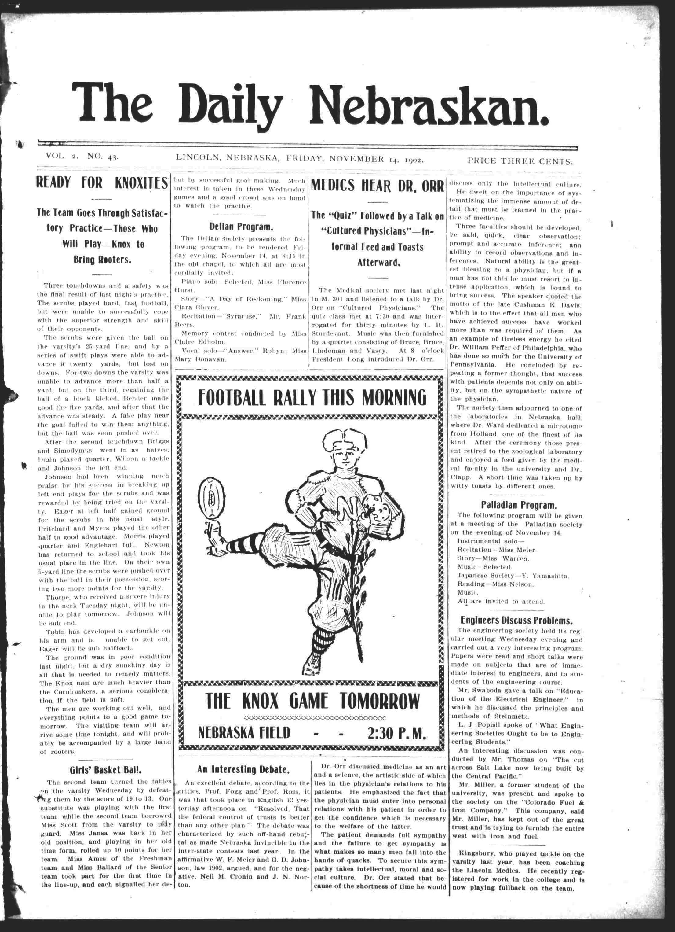 Title Page of The October 17, 1902 issue of The Daily Nebraskan published by the University of Nebraska-Lincoln